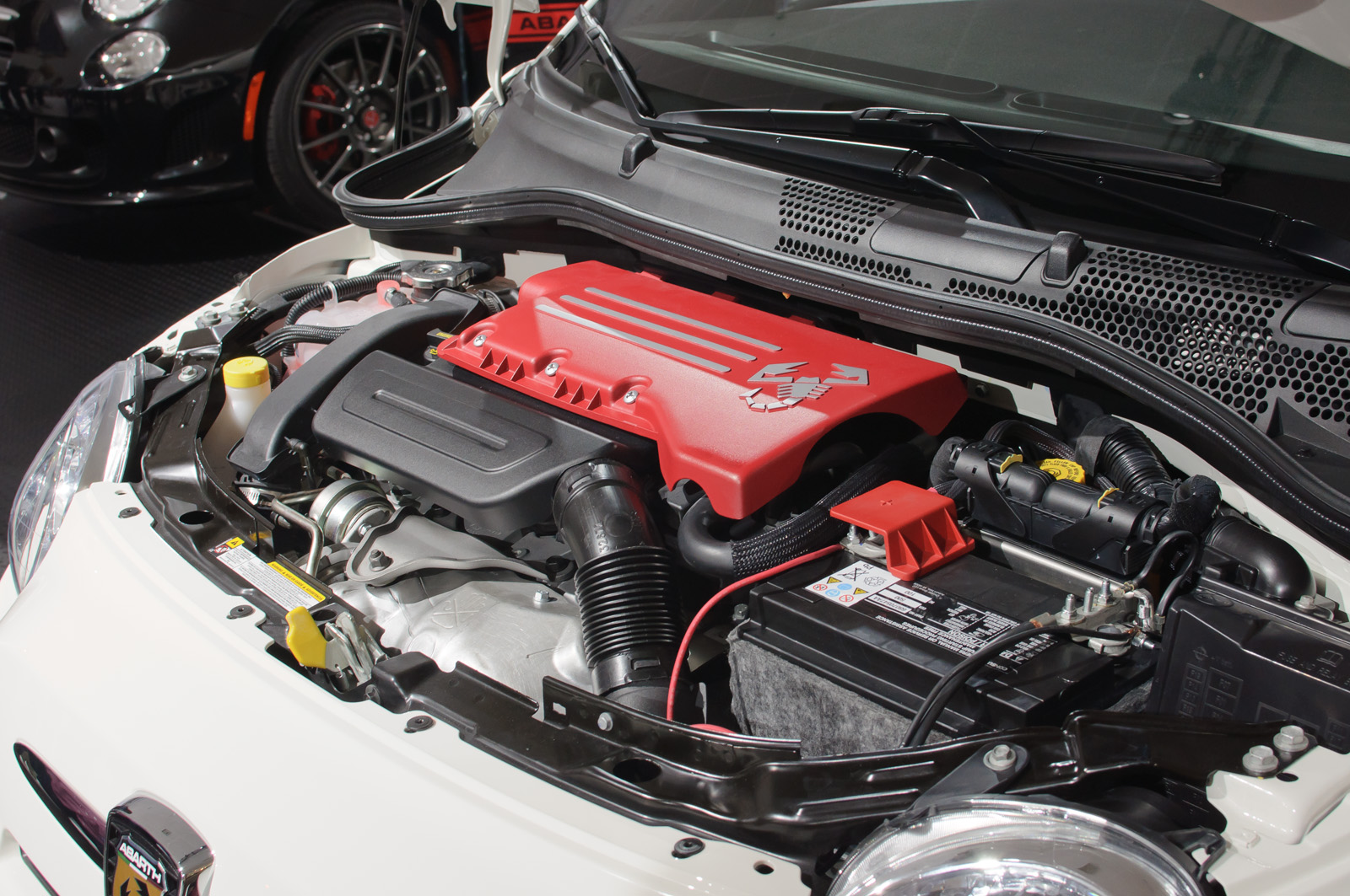 Il 1.4 T-jet (turbo benzina) della Abarth 500 The Abarth comes with a turbocharged 1.4L engine. Seen at Los Angeles International Auto Show, 2011.